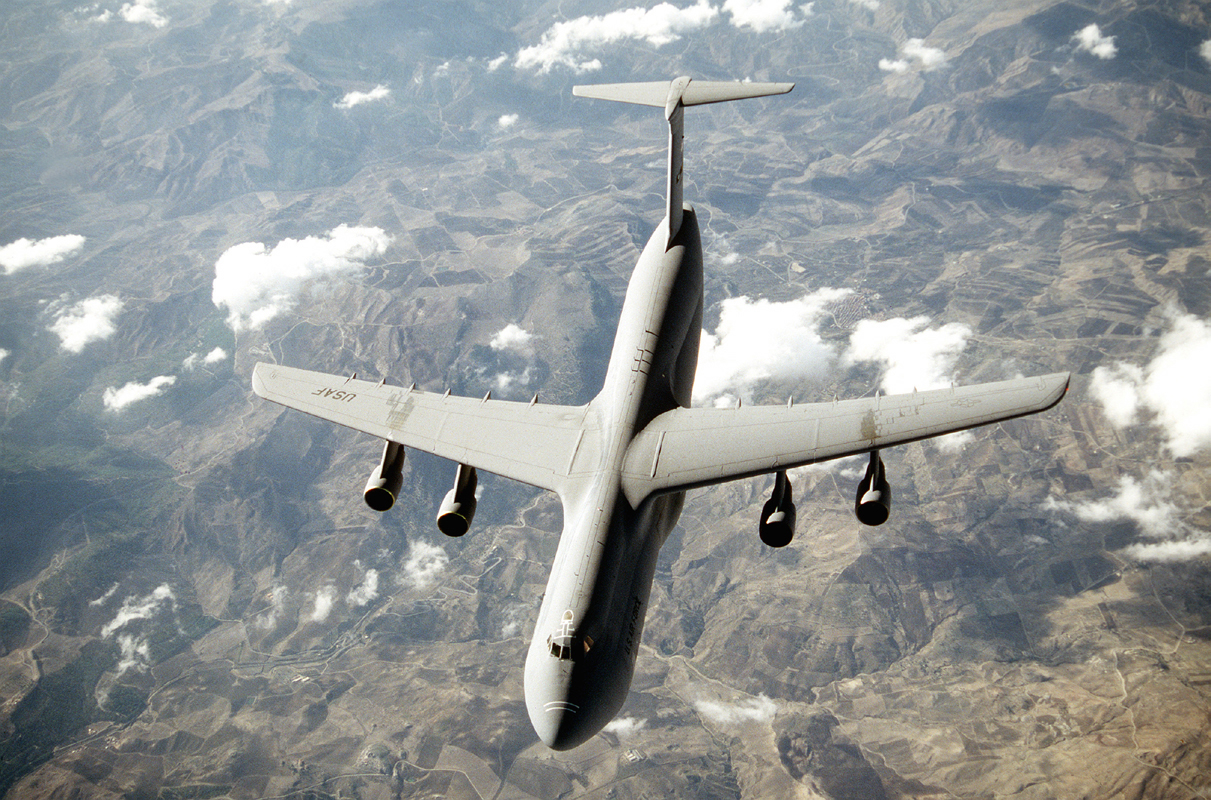 With its tremendous payload capability, the large C-5 Galaxy, an outsized-cargo transport, provides the Air Mobility Command intertheater airlift in support of United States national defence. The C-5 is one of the largest aircraft in the world. It can carry outsized cargo intercontinental ranges and can take off or land in relatively short distances. Ground crews can load and off load the C-5 simultaneously at the front and rear cargo openings since the nose and aft doors open the full width and height of the cargo compartment. It can also "kneel down" to facilitate loading directly from truck bed levels.